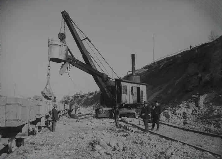 Streckenabschnitt Herisau: Bagger beim Beladen von Waggons mit Bauschutt. Die Dampfbagger erfüllten die an sie gestellten Erwartungen nicht ganz.